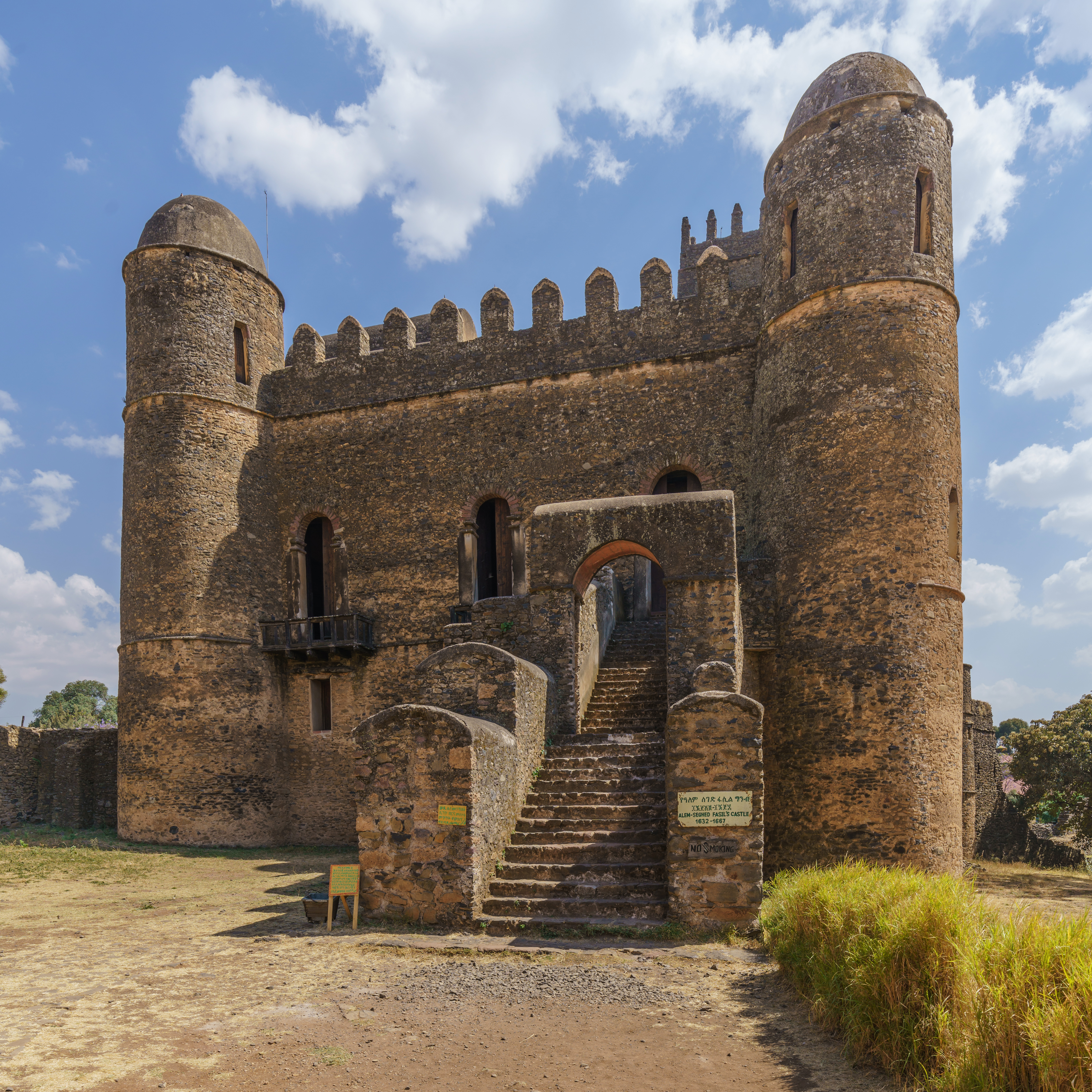 Fasil Ghebbi fortress in Gondar, Ethiopia